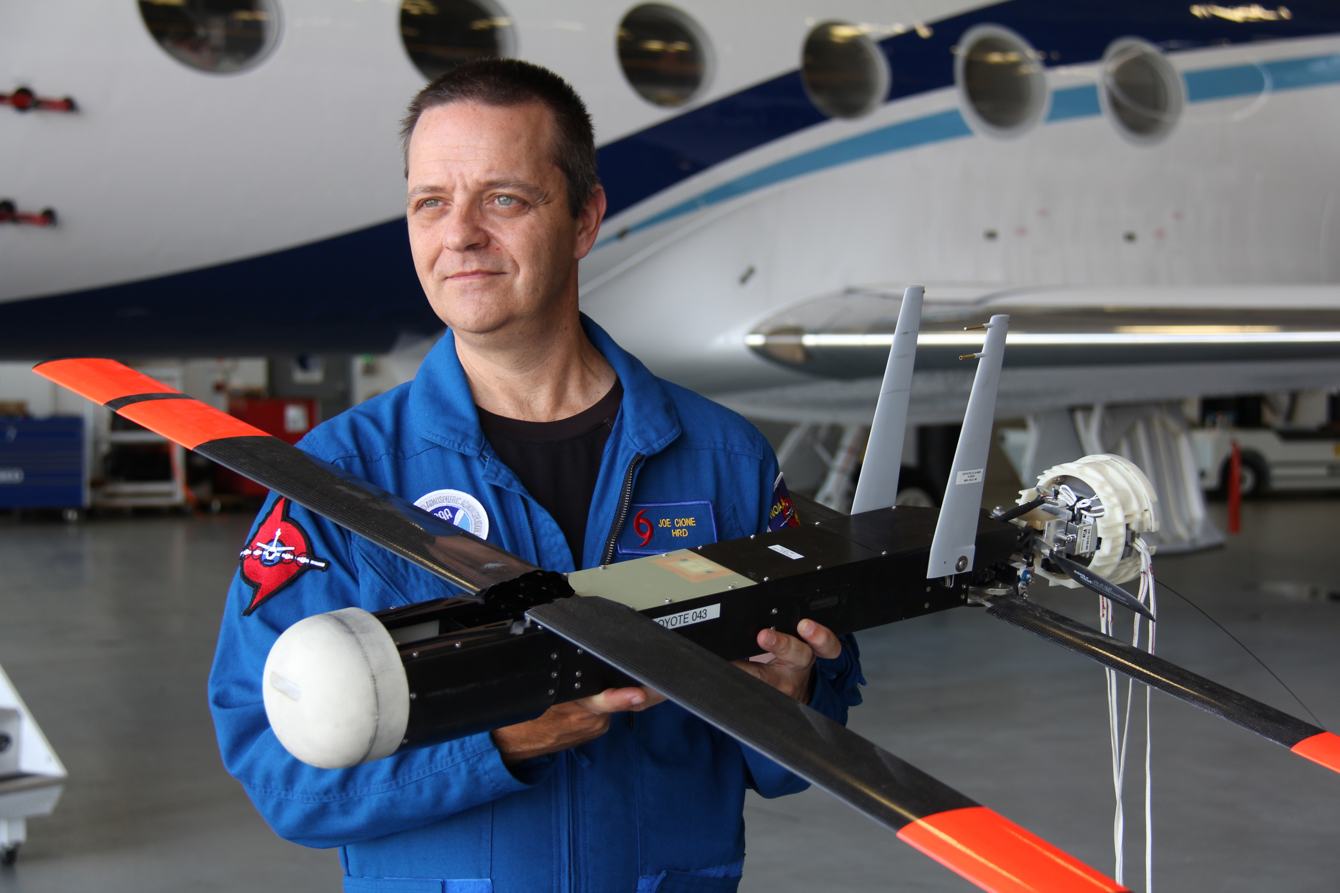 NOAA’s Joe Cione explains how the small, lightweight Coyote unmanned aircraft system is deployed from the P-3 Hurricane Hunter aircraft to record real time weather data in the area where air and ocean meet. (NOAA)